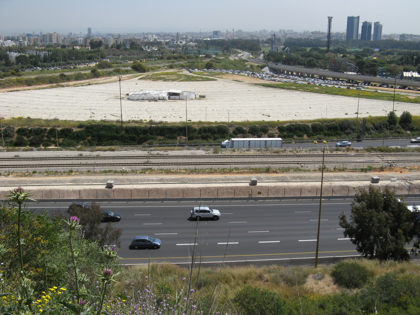 נתיבי איילון